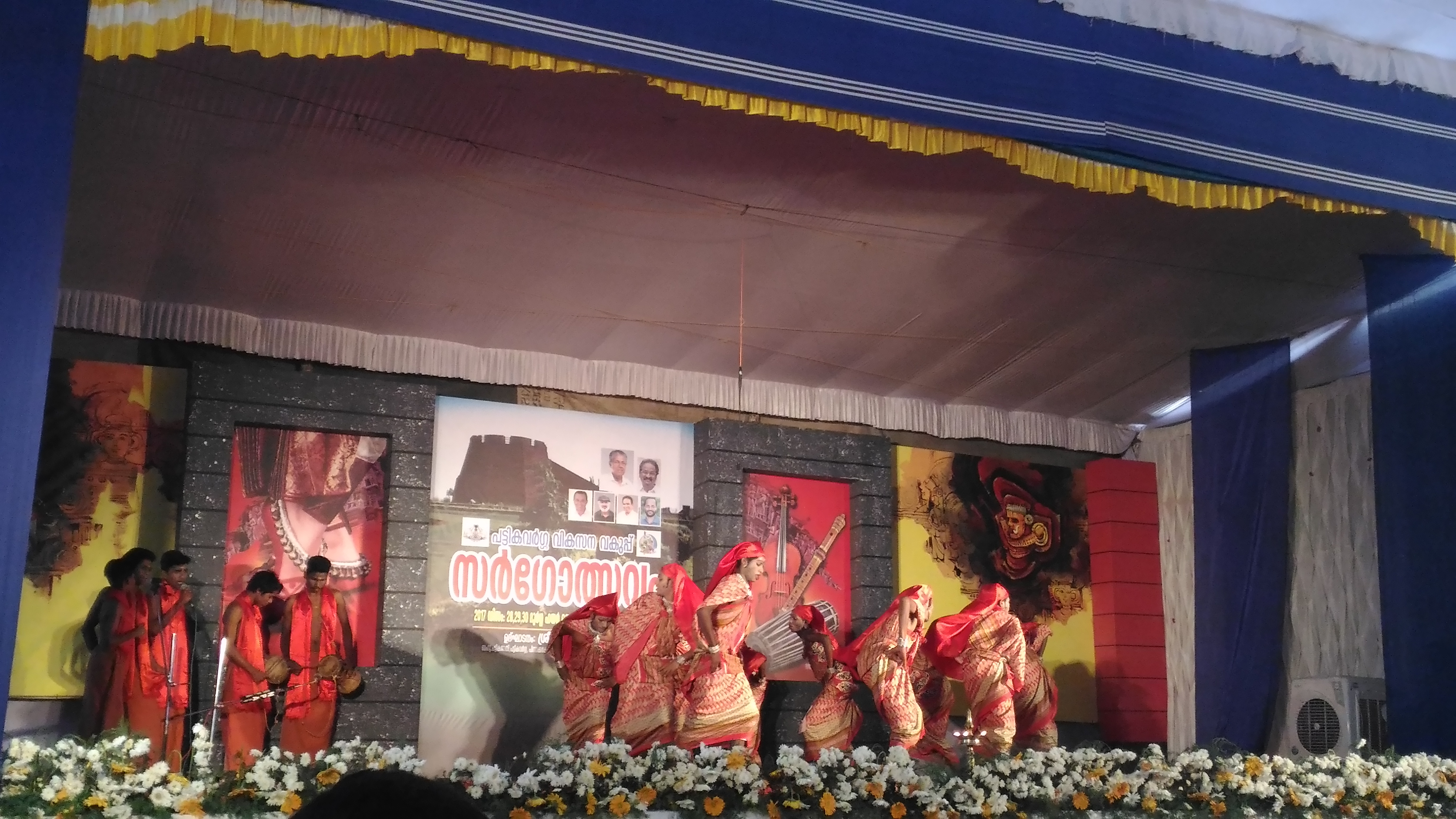 Gaddhika Tribal Dance